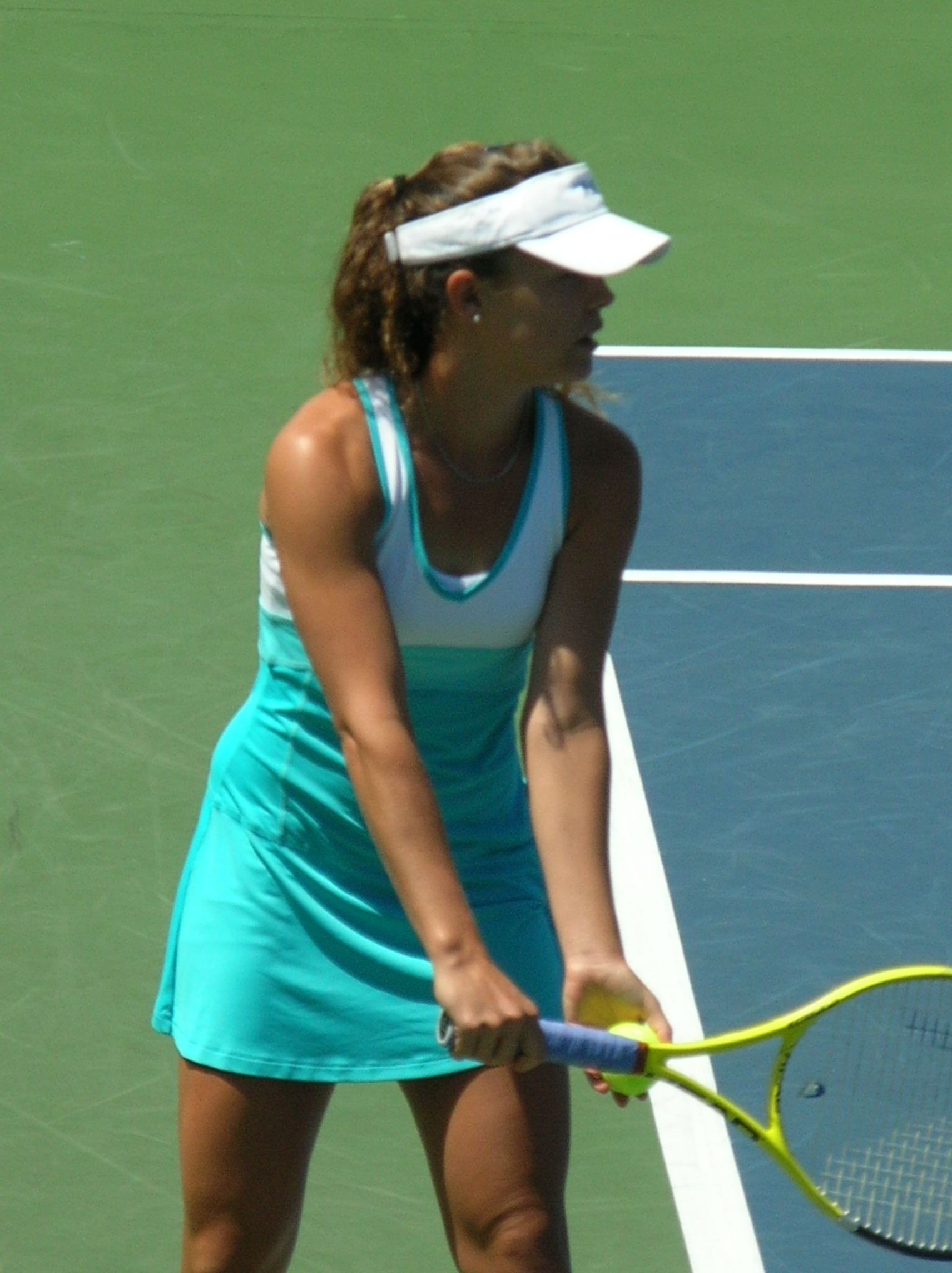 Michelle Larcher De Brito in the second round of qualifying at the Bank of the West Classic at Stanford. She lost to Chang Kai-Chen 4-6, 7-5, 6-2.